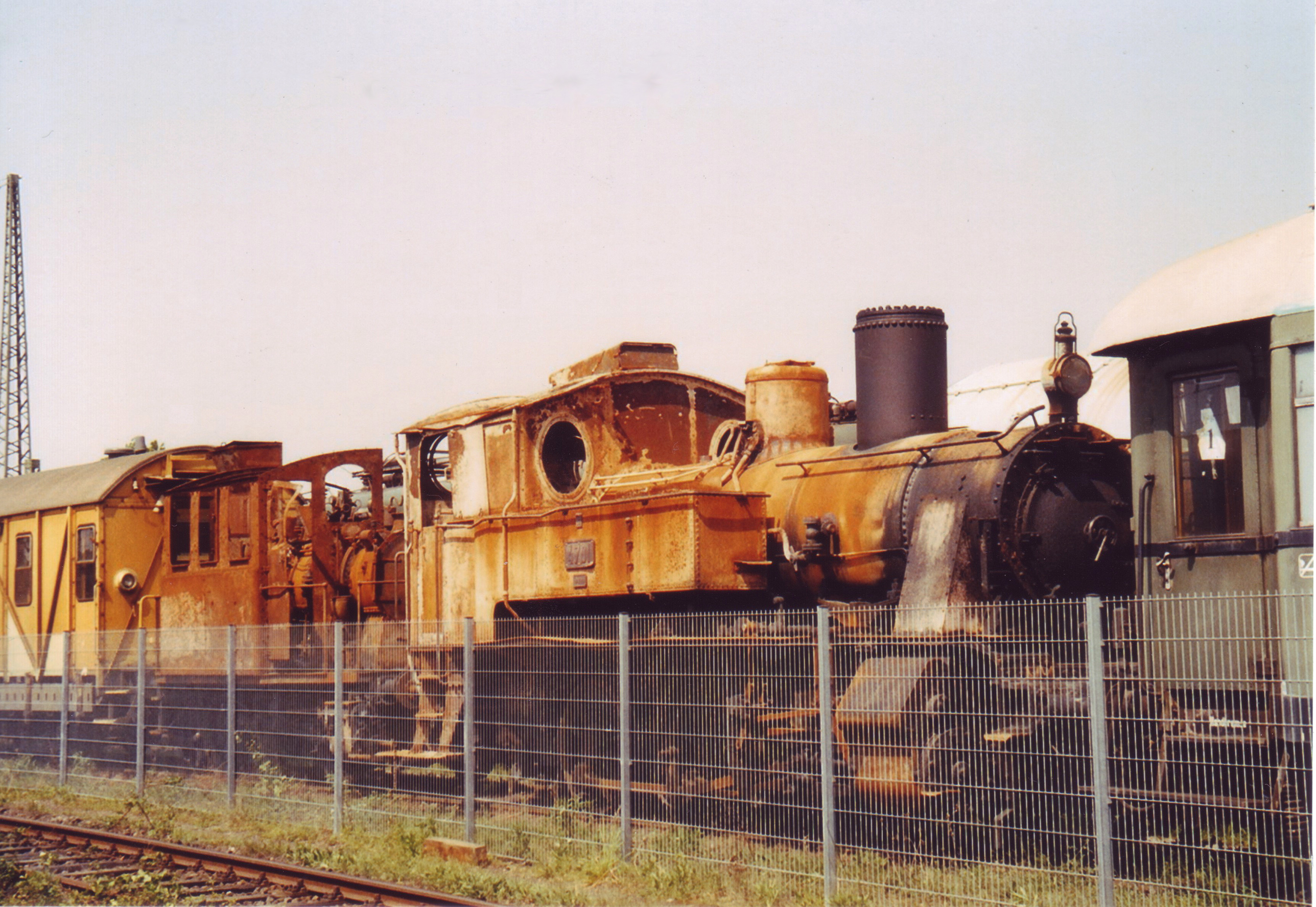 Steam locomotives Bavarian R 3/3 and Bavarian PtL 2/2 destroyed by fire in Gostenhof in the DB Museum in Koblenz-Lützel, a local branch of the Transport Museum in Nuremberg.